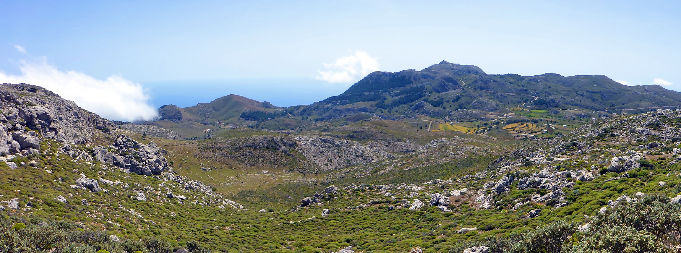 This is a photography of Natura 2000 protected area with ID GR4210002